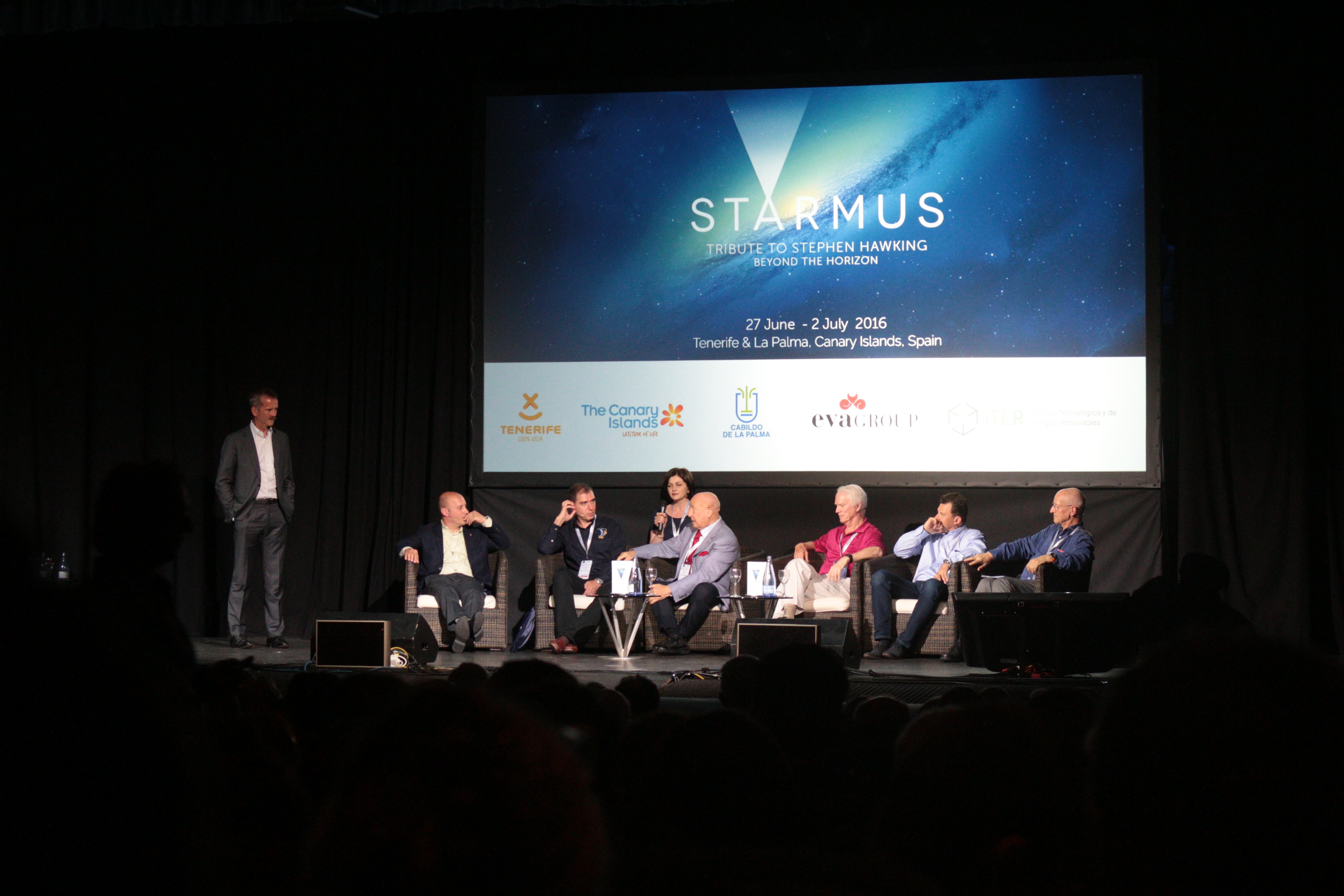 Starmus 2016. Tenerife, Canary Islands.